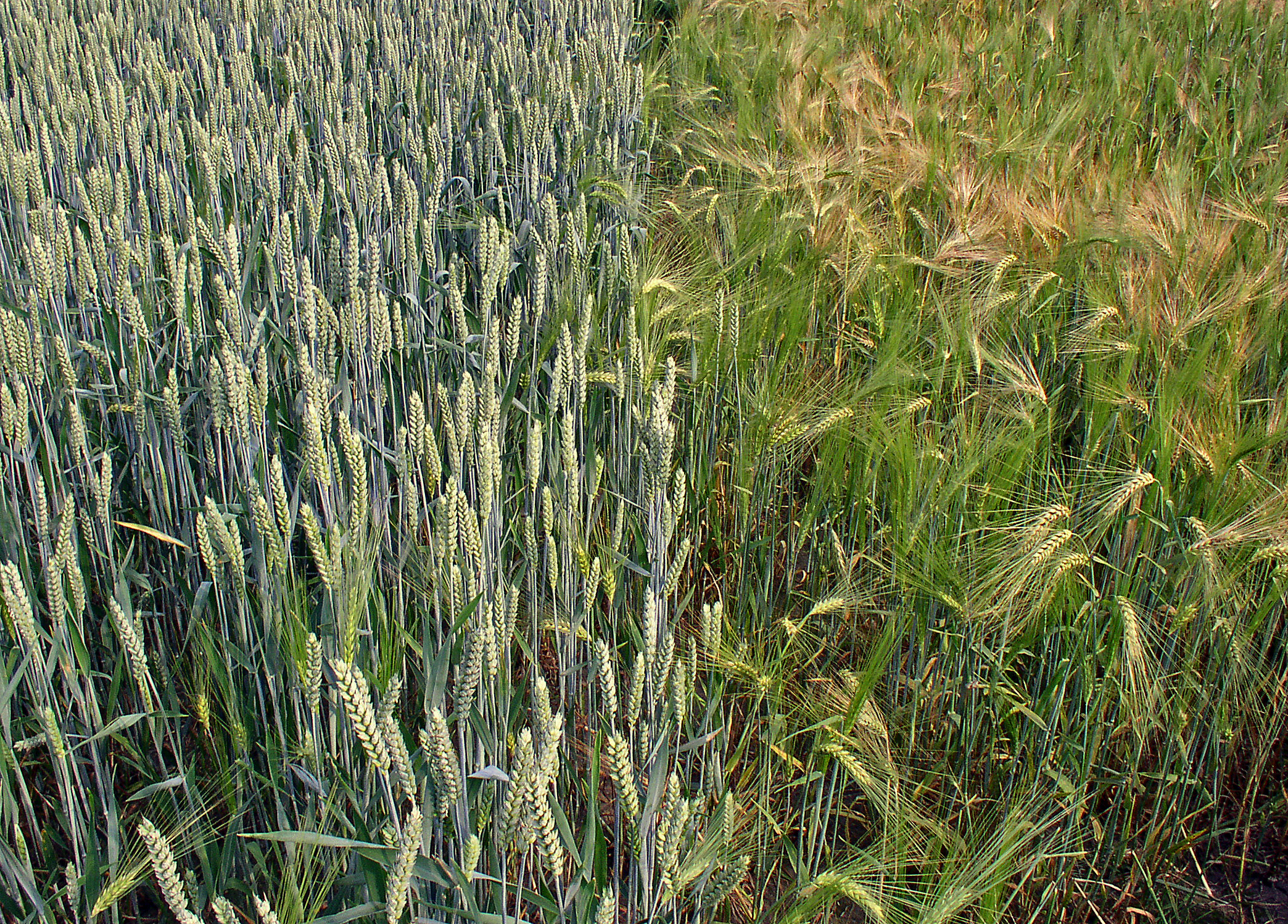 wheat and barley